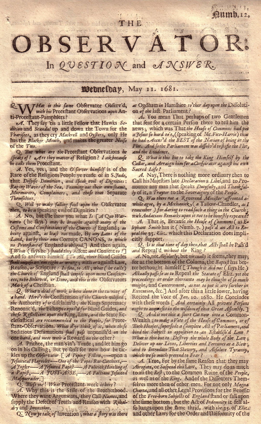 An issue of The Observator dated May 11, 1681.